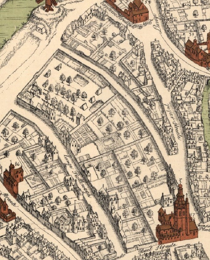 Uitsnede kaart Brugge door Marcus Gerardus; Gezellekwartier